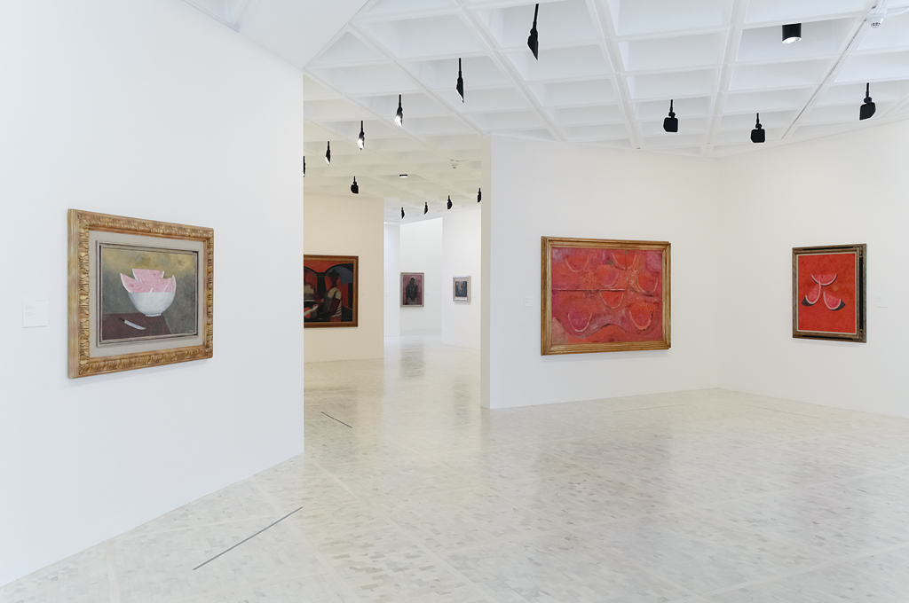 Exhibition Tamayo/Trajectories